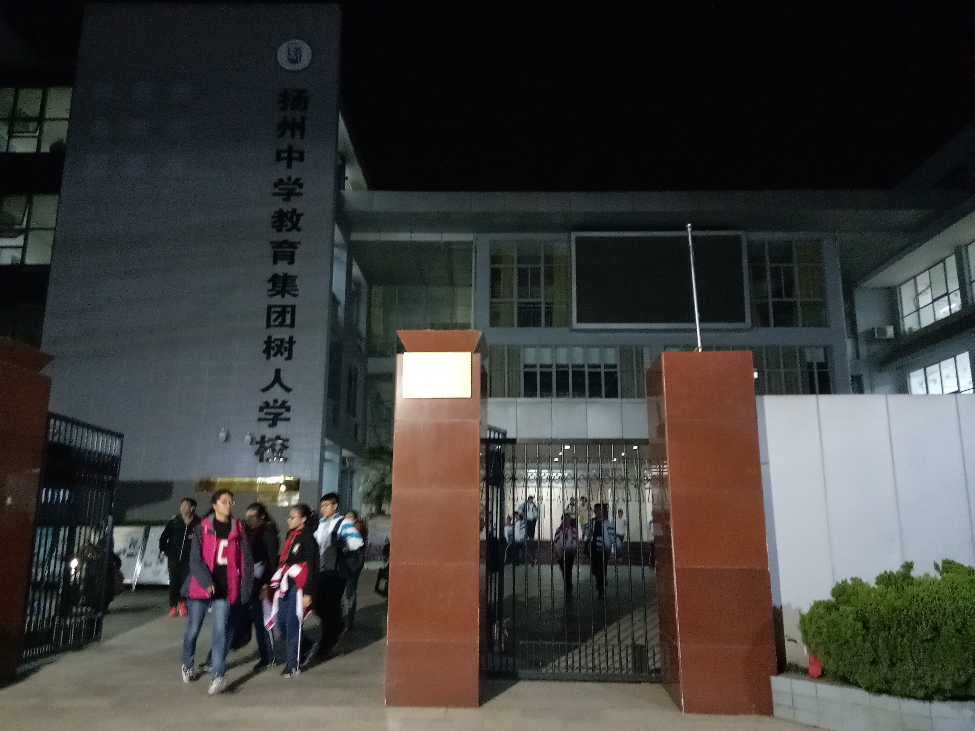 Yangzhou Shuren School's gate